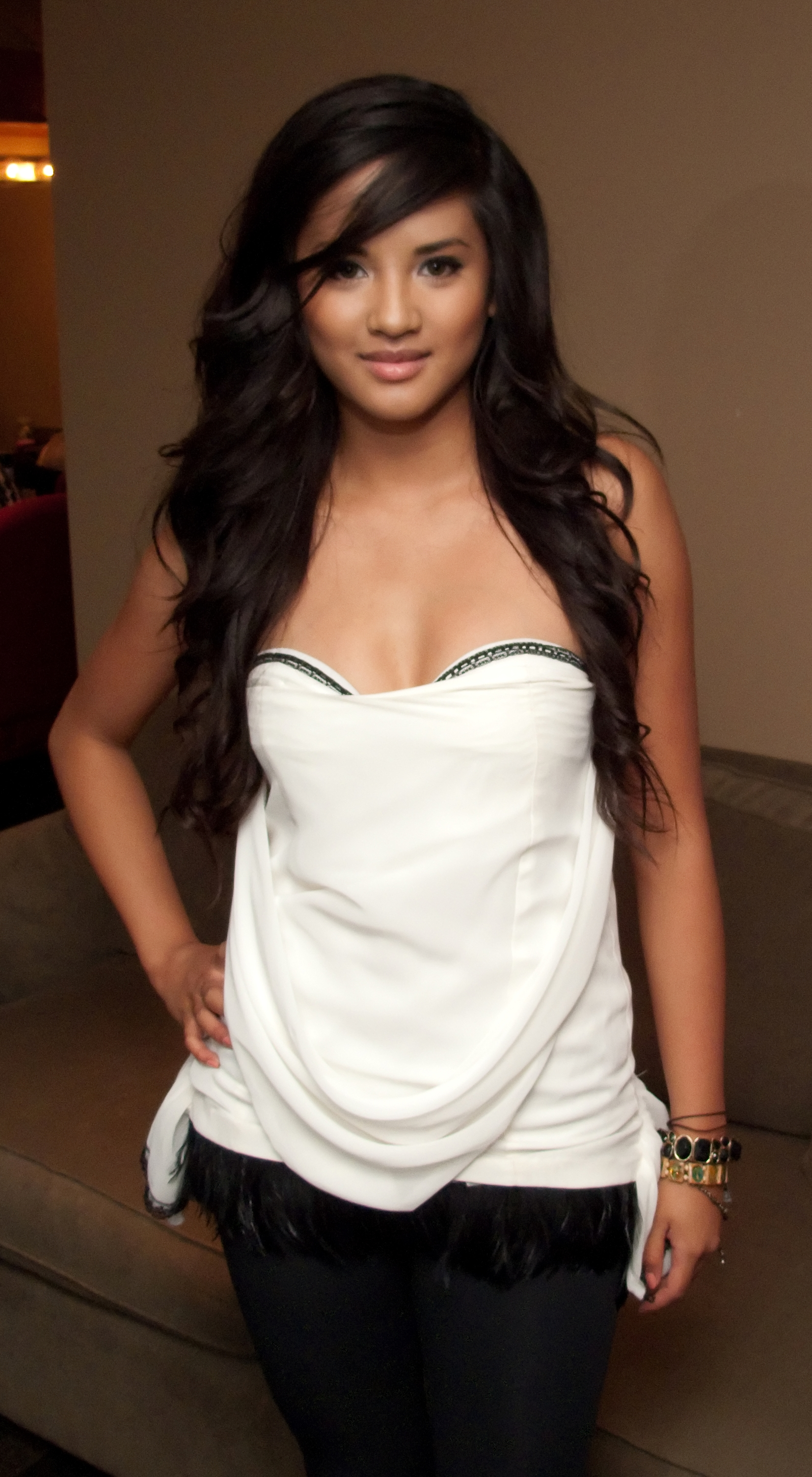 Emmalyn Estrada backstage at the Variety Summer Concert Series at the River Rock Show Theatre in the River Rock Casino in Richmond, British Columbia.